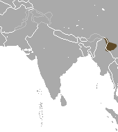 Burmese Short-tailed Shrew (Blarinella wardi) range